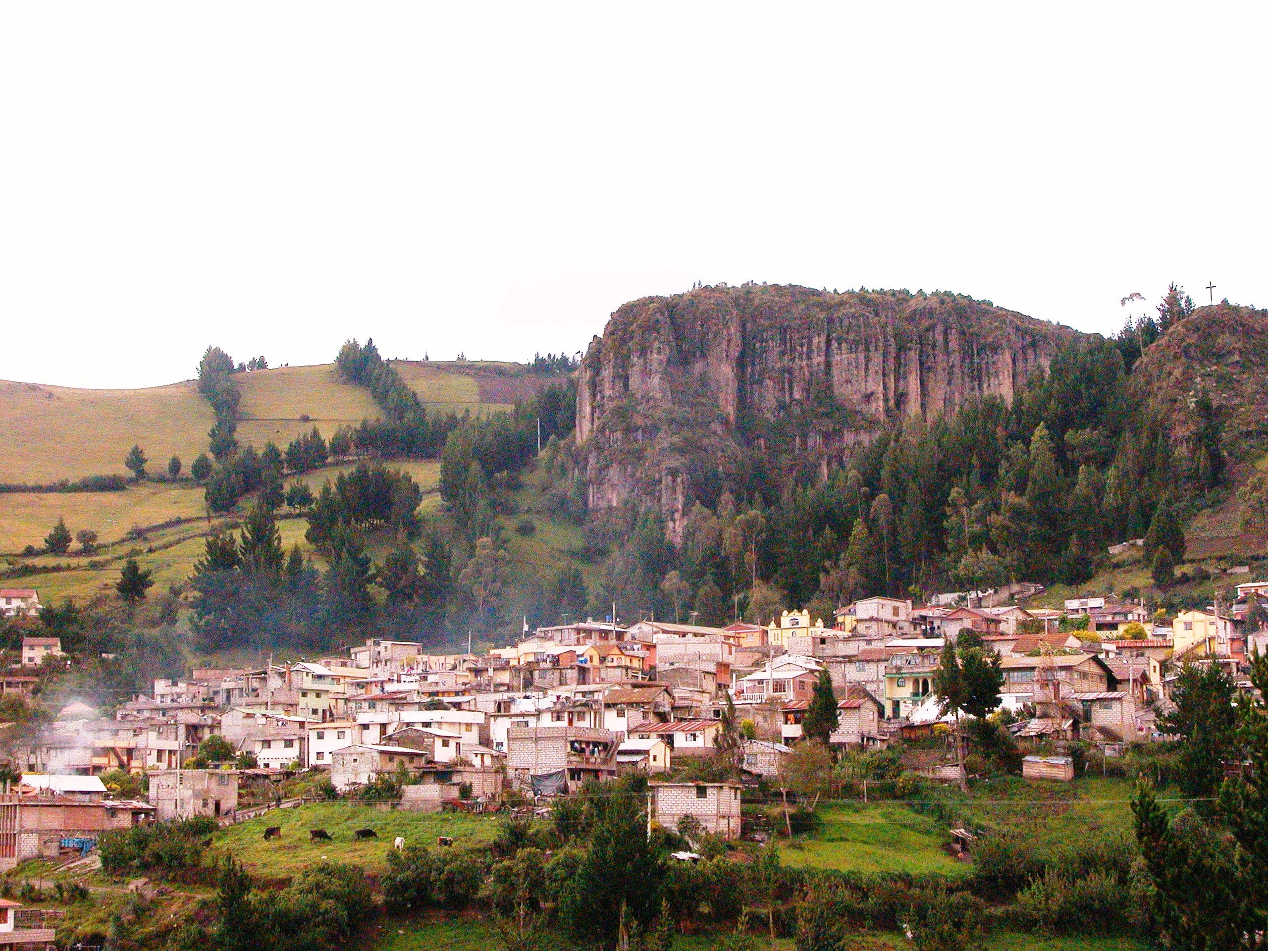 Salinas de Bolívar